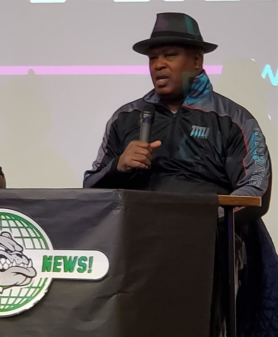 Douglas in 2020 at a Mifflin Middle School event.